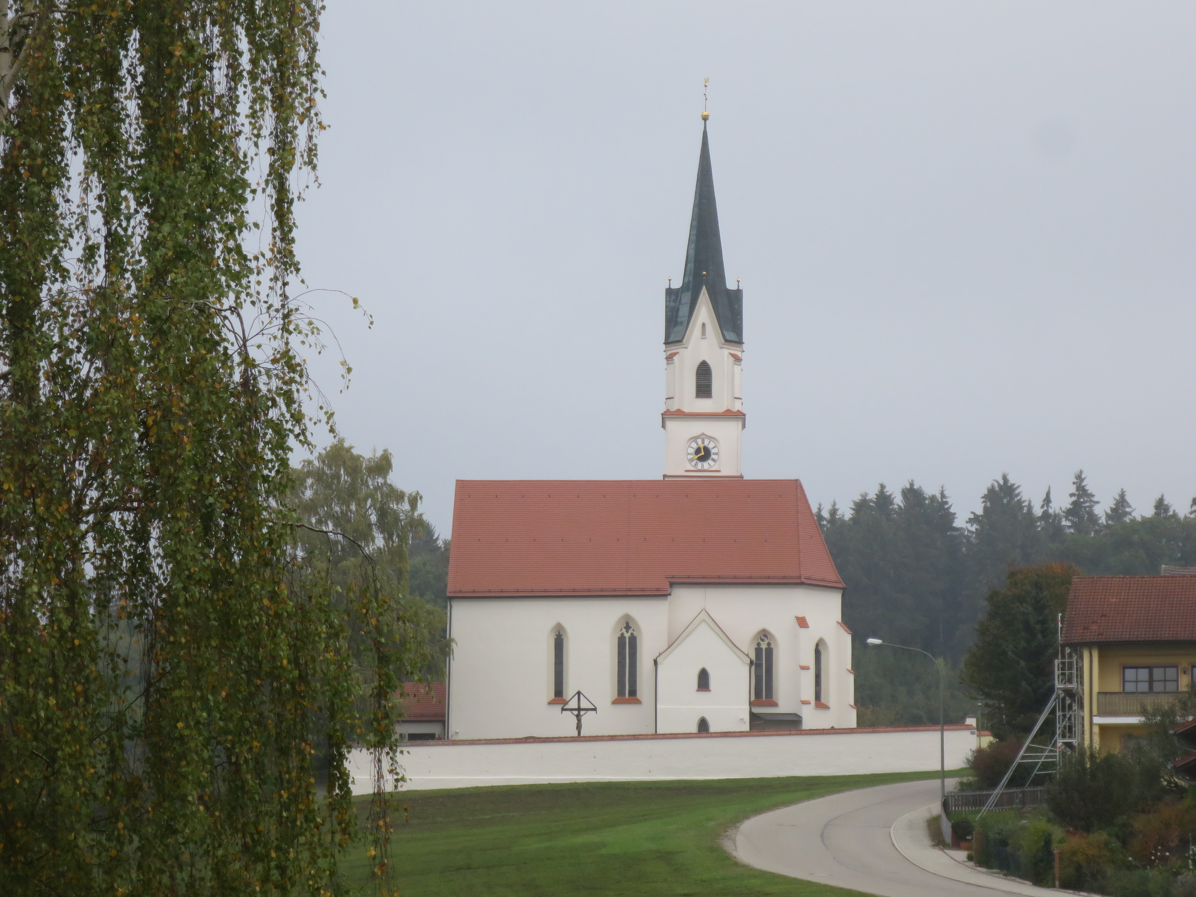 St. Michael, Eggenfelden-Kirchberg, Bavaria, Germany